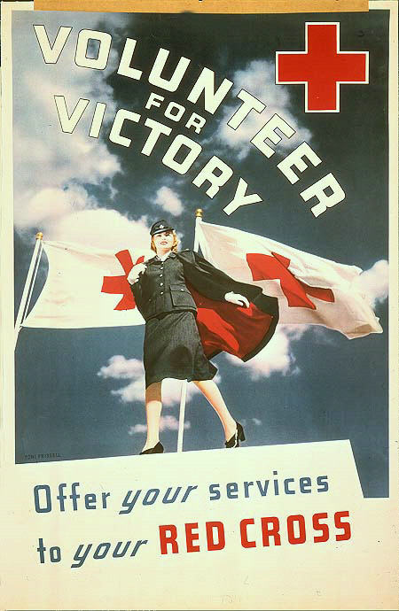 WWII Red Cross poster